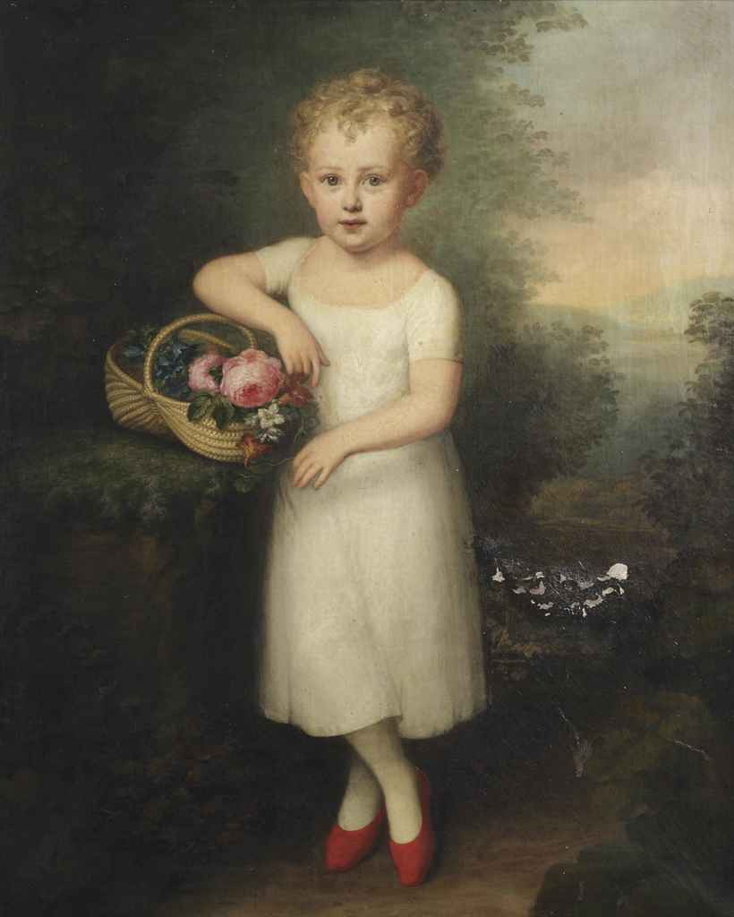 Portrait of Agnes Gräfin zu Ranzau (1803-1884), full-length, in a white dress, holding a basket with flowers, standing in a garden.